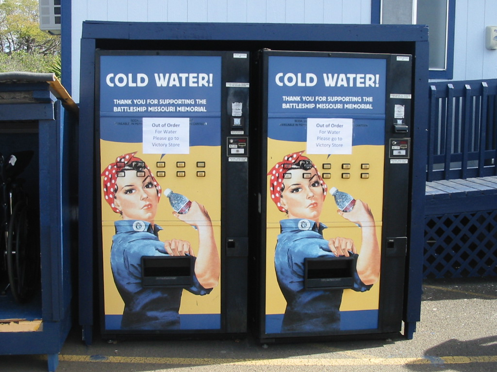 A pair of water bottle vending machines sport "We Can Do It!"-style images; both are also out of order. Photographed at the Battleship Missouri Museum on Ford Island in the middle of Pearl Harbor, Hawaii.